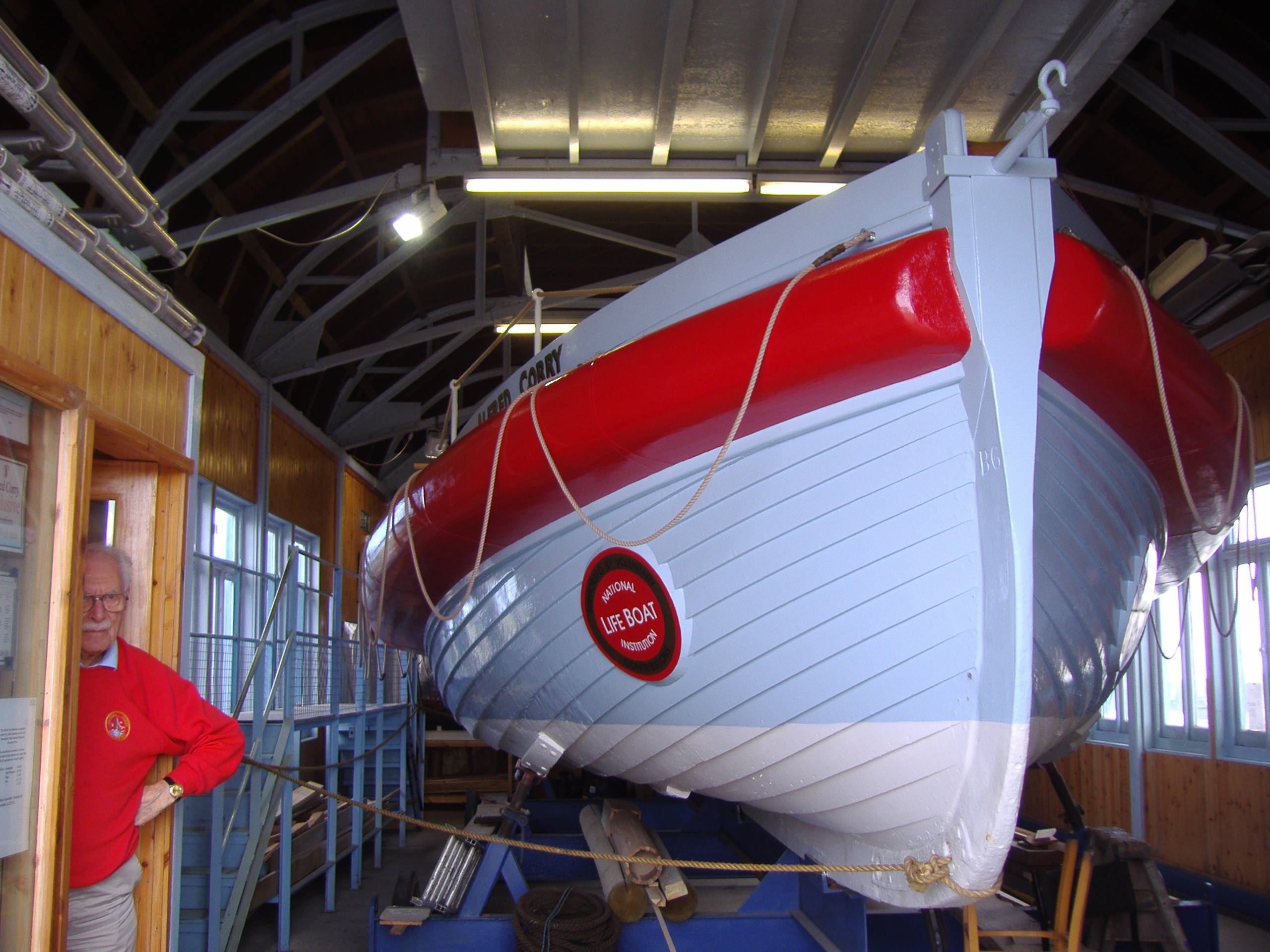 The Southwold Historic Lifeboat Alfred Corry on display in its own Museum